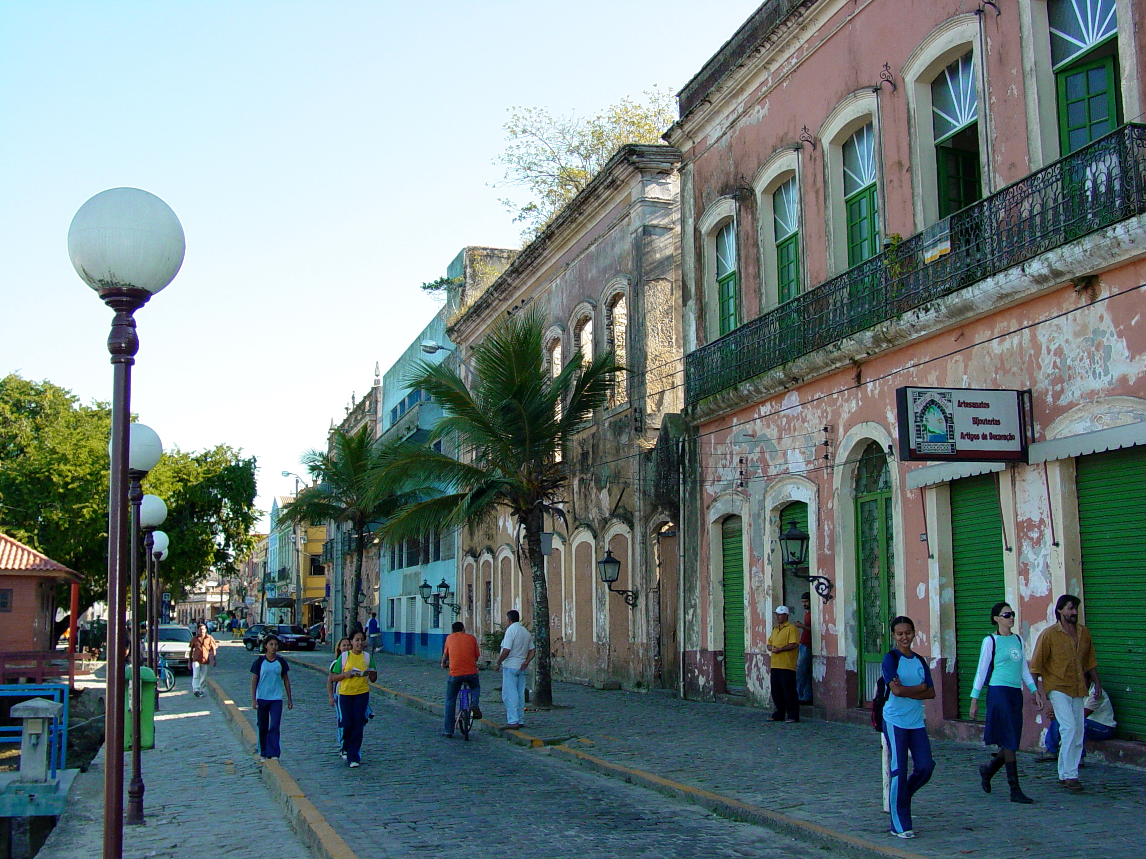 Street scene in Paranagua, Brazil. July 2006.